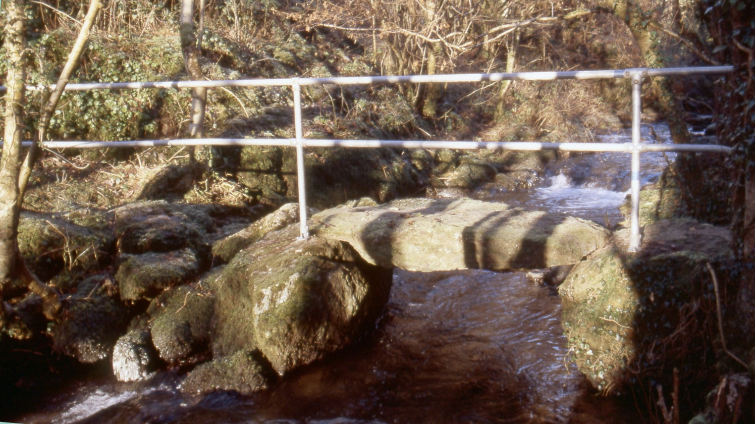 Clapper Bridge over River Cadnant, above Cwm Cadnant Dingle, Menai Bridge, Wales. – Ancient clapper bridge, aesthetically ruined by the addition of a modern hand-rail, courtesey of the local council.